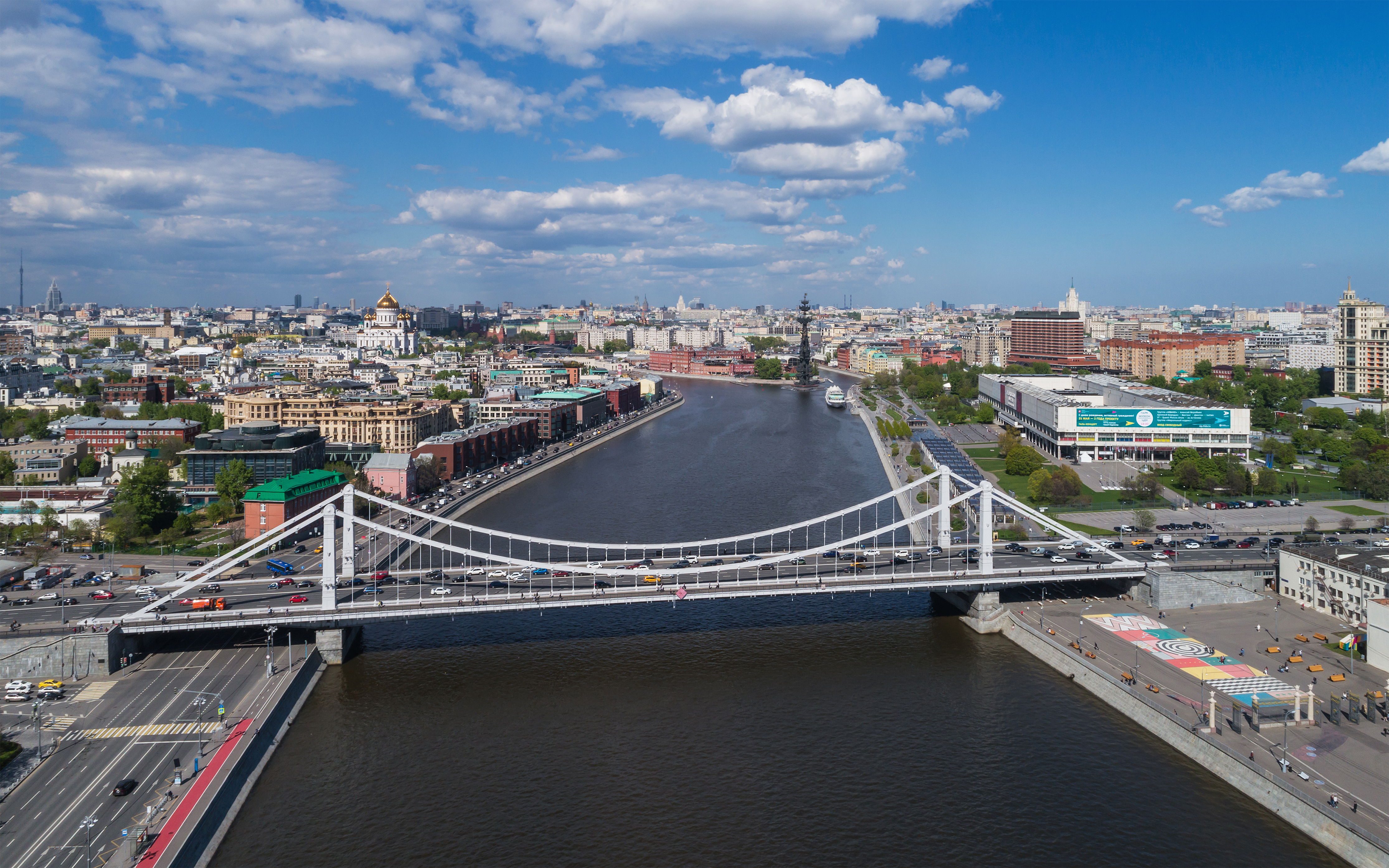 Aerial photo of Krymsky Bridge in Moscow (Russia).